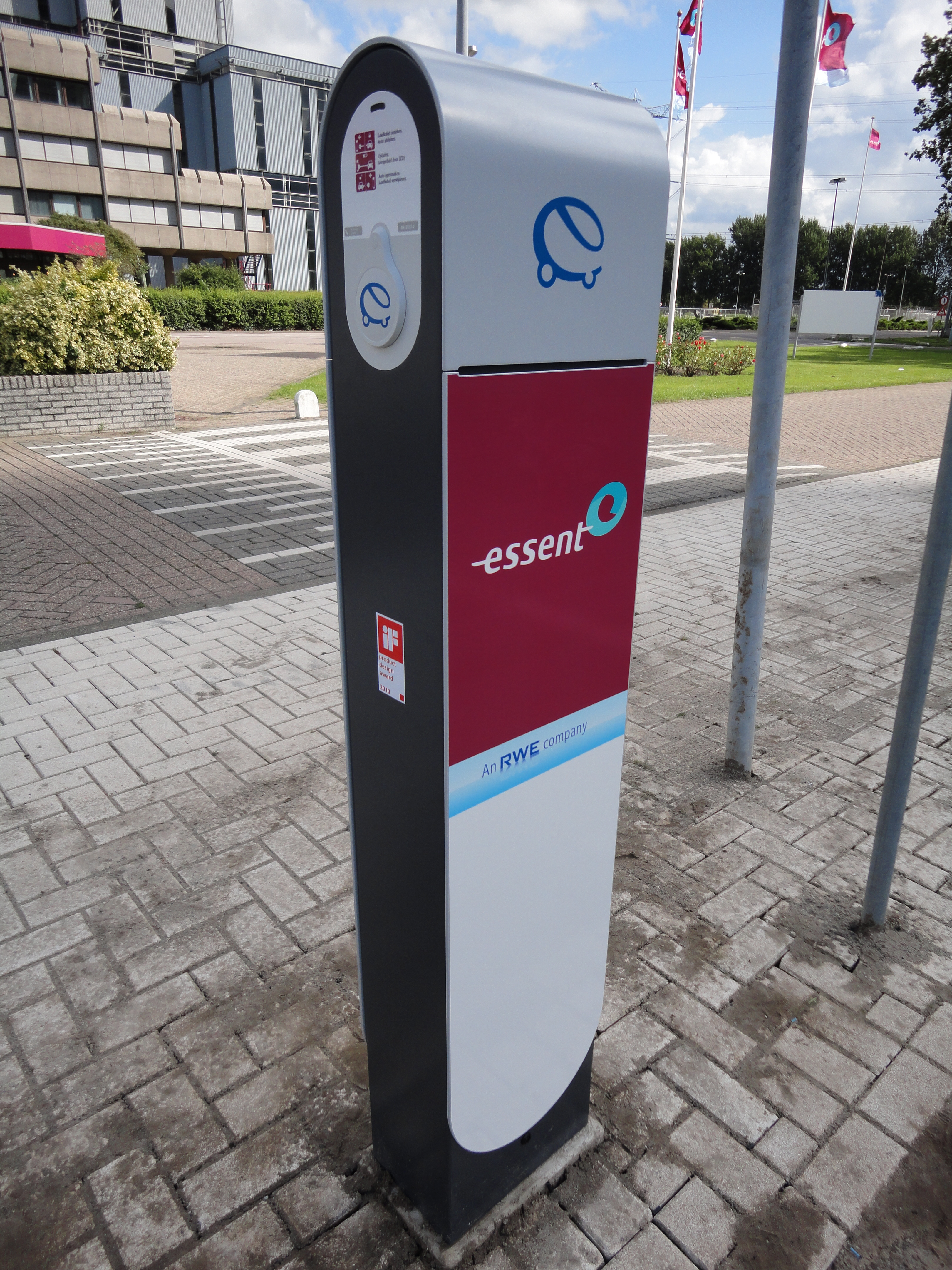 Een oplaadpaal voor elektrische auto's van Essent. Foto: Essent; Castel Communicatie